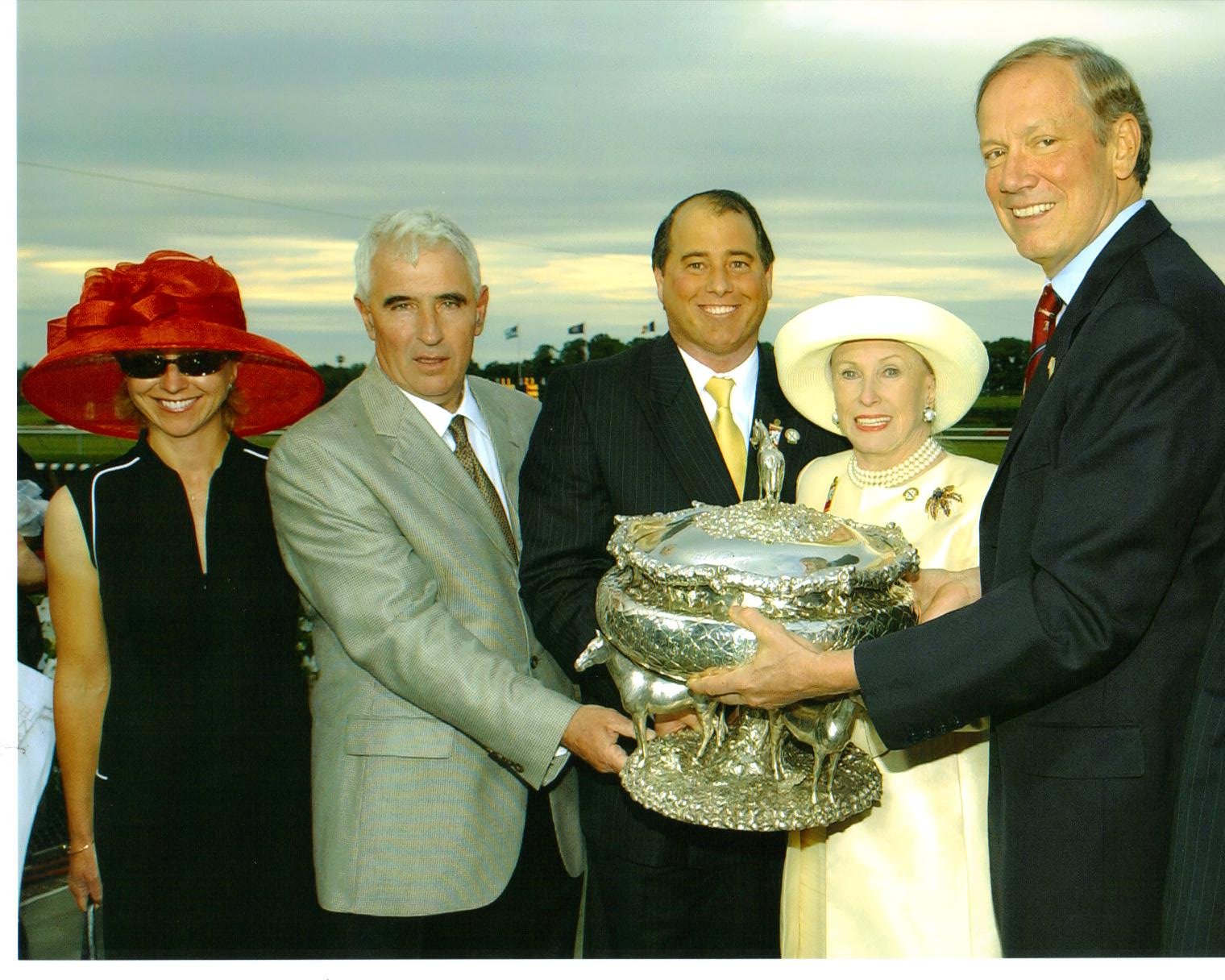 Marylou Whitney holding a trophy at Belmont